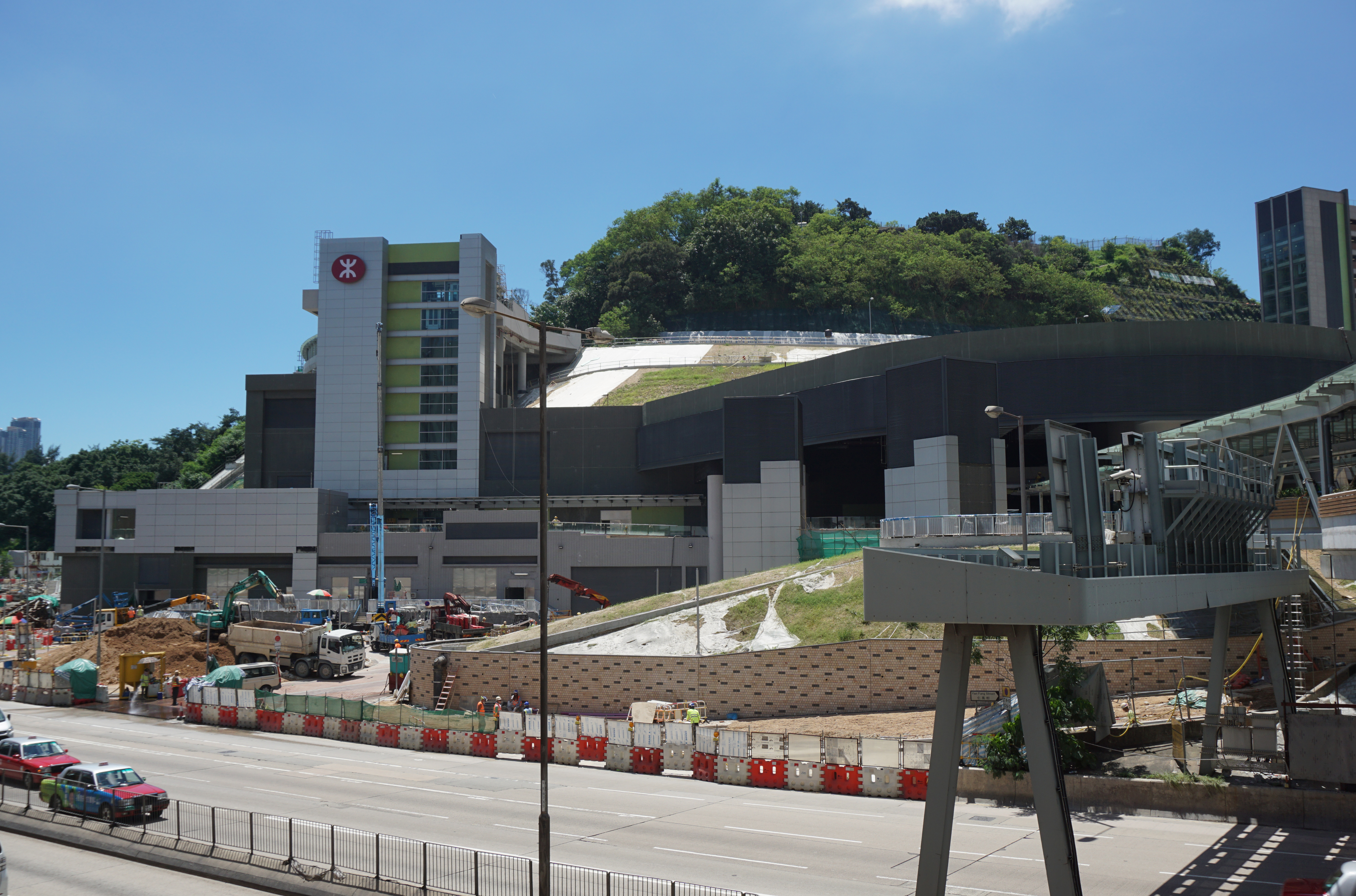 MTR Ho Man Tin station exterior